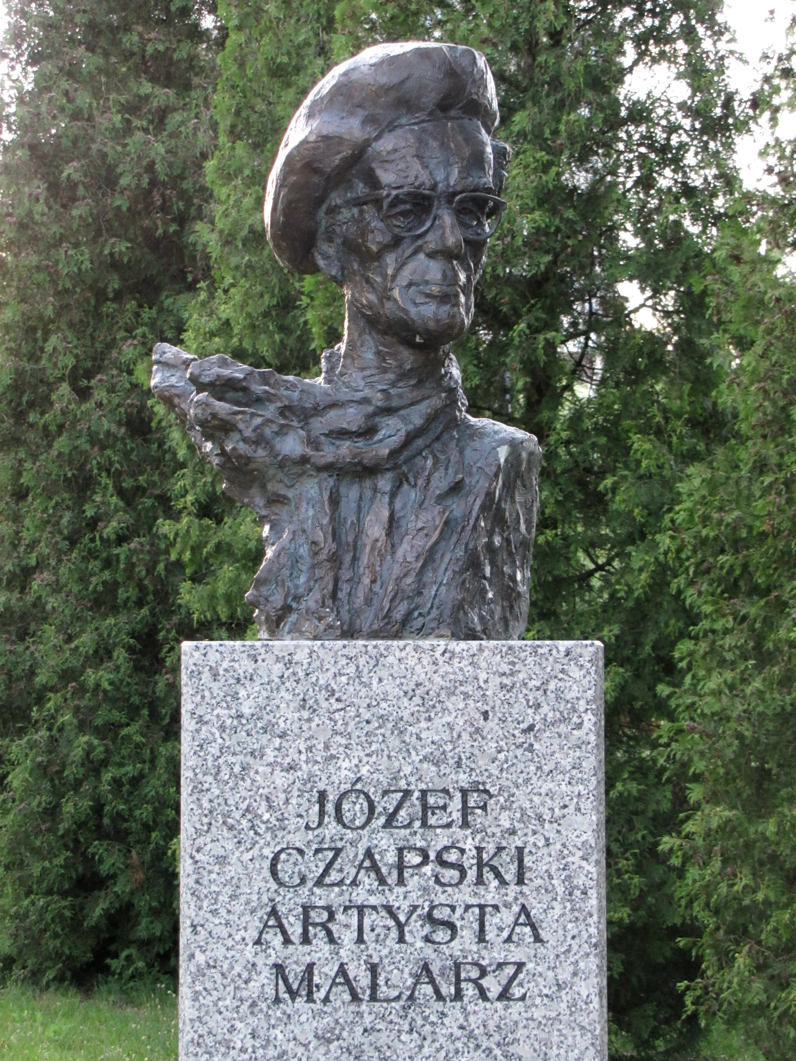 Bust of Józef Czapski in Celebrity Alley in Kielce (Poland)